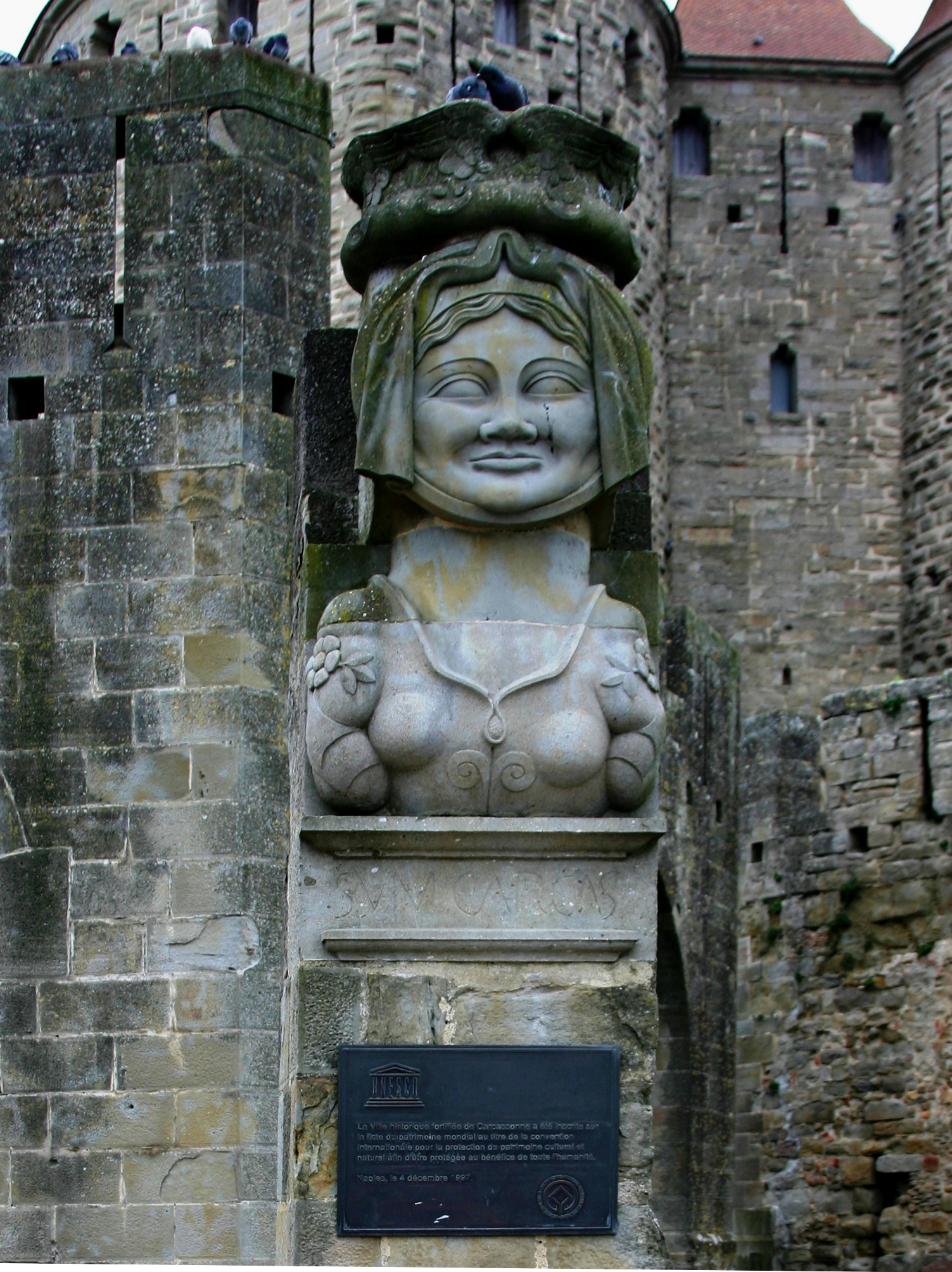 Historic fortified city of Carcassonne - 2014